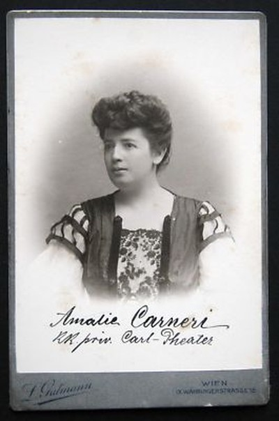 Vintage photograph of opera singer Amalia Carneri, Vienna, signed Amalie Carneri